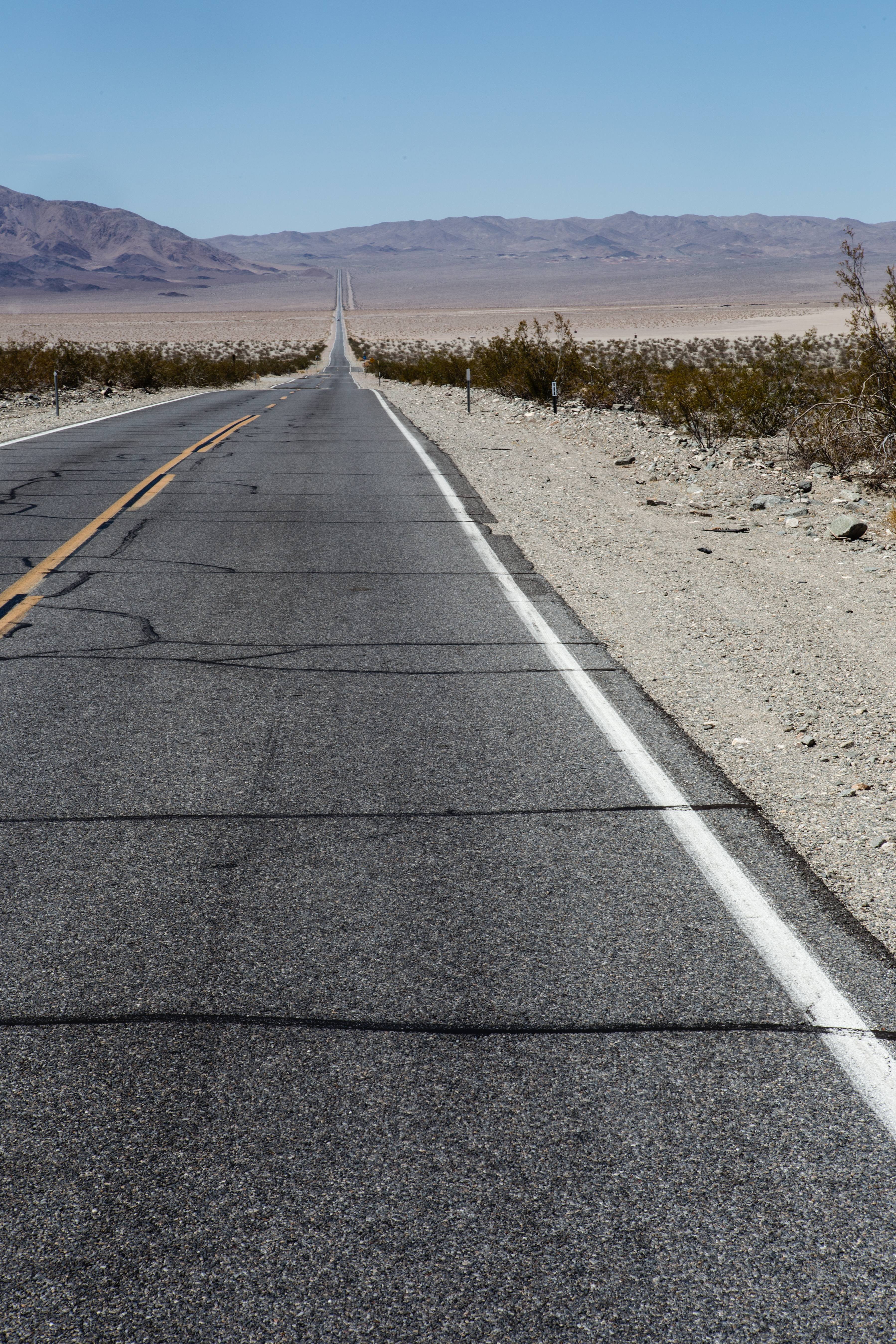 California State Route 127, facing north, about half-way between Baker and Shoshone.